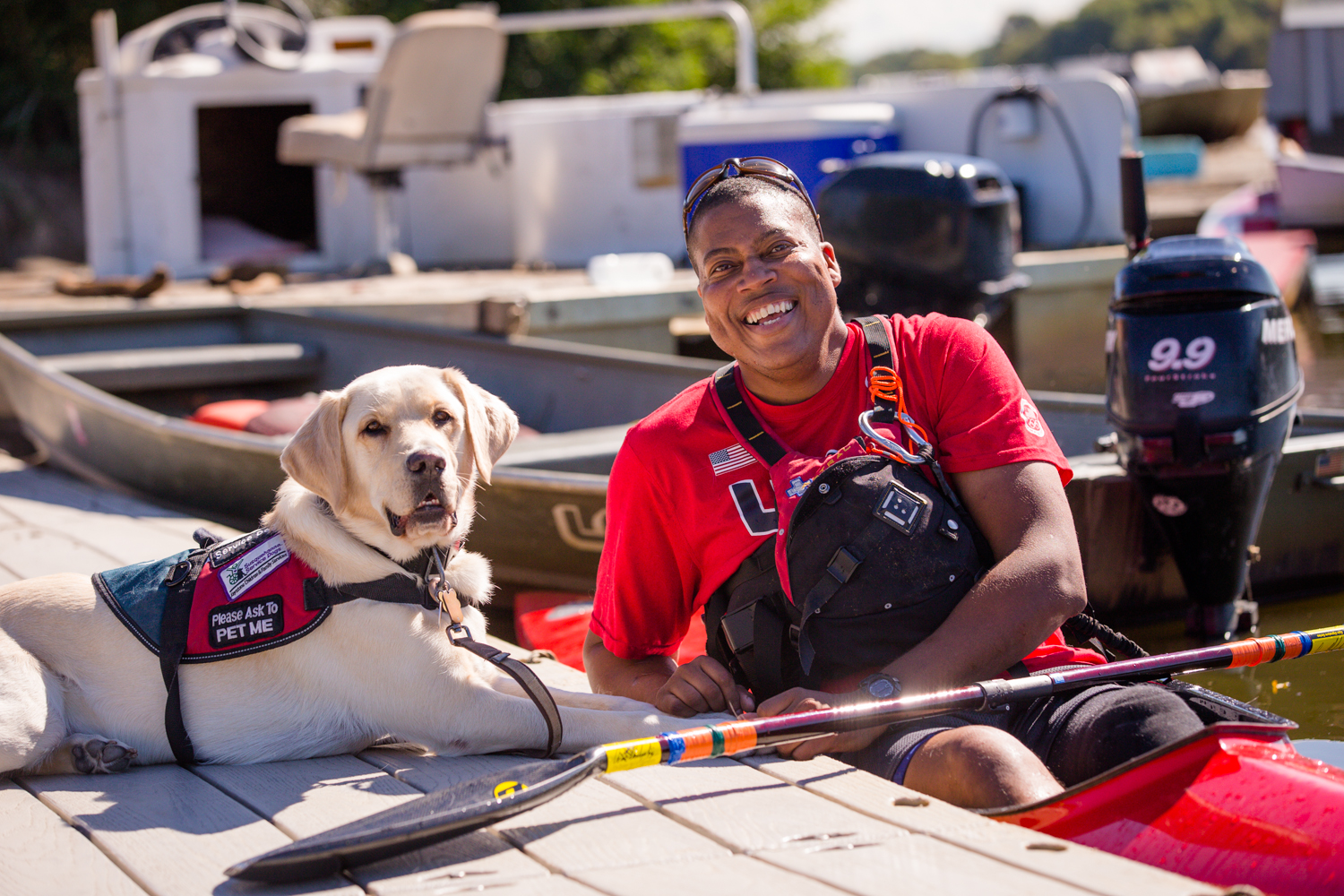 Brandon Holiday and Service dog Dyson at Cooper River, located in Camden County, during a Sprint Kayak Training Session